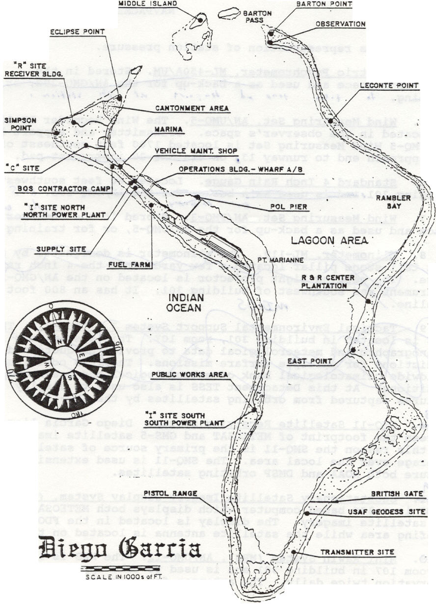 Diego Garcia Island Map, from around 2002. This is "FIGURE 2: Diego Garcia Island Map" from the source document, 'Local Area Forecaster's Handbook for Diego Garcia'.